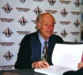 The famous stop-motion artist Ray Harryhausen at Forbidden Planet, London.